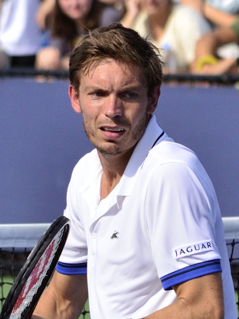 Queens, NY August 30, 2013 Michael Llodra (FRA) / Nicolas Mahut (FRA) def. Fabio Fognini (ITA) / Albert Ramos (ESP) Court 8